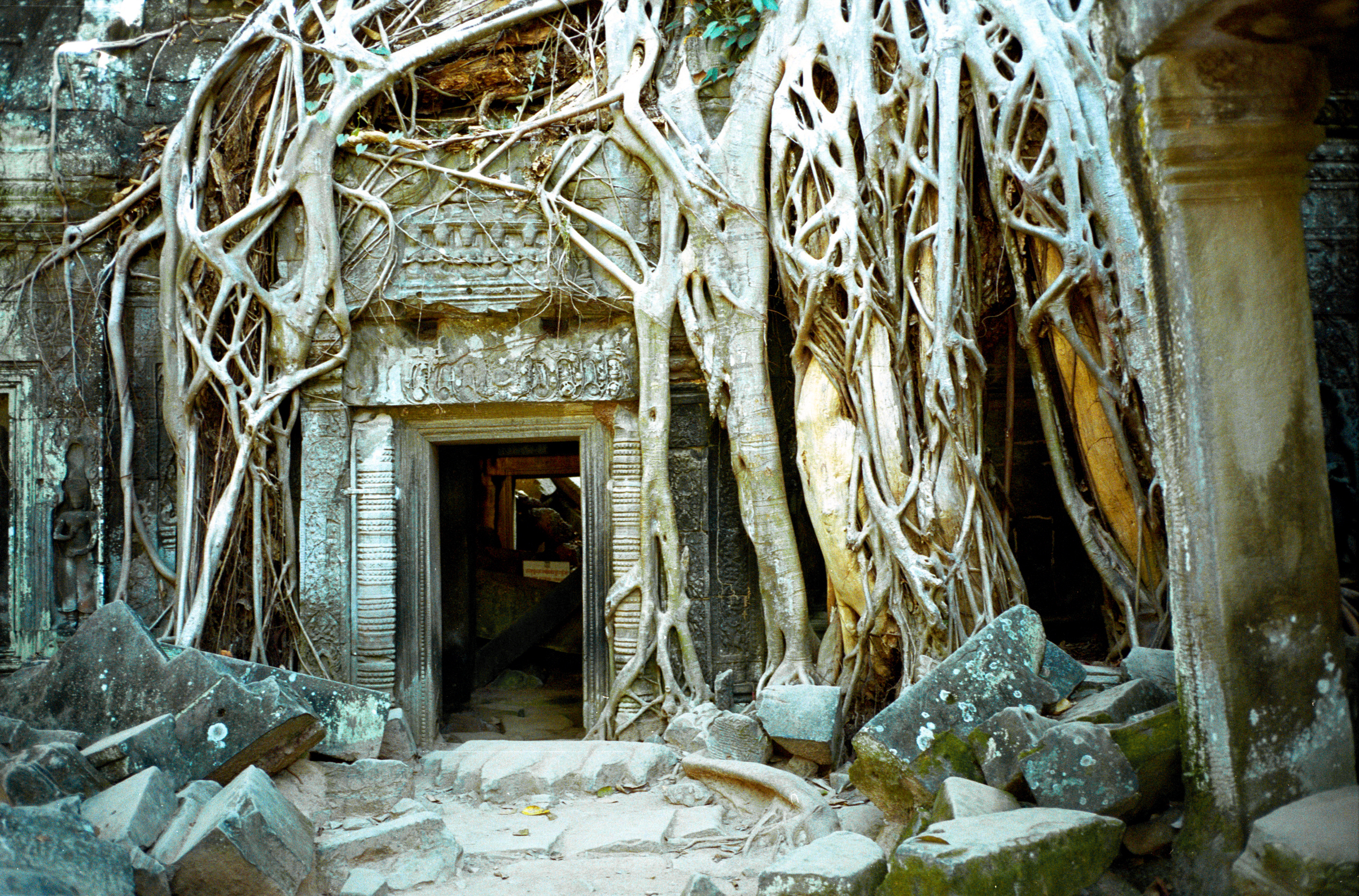 Ta Prom banyan